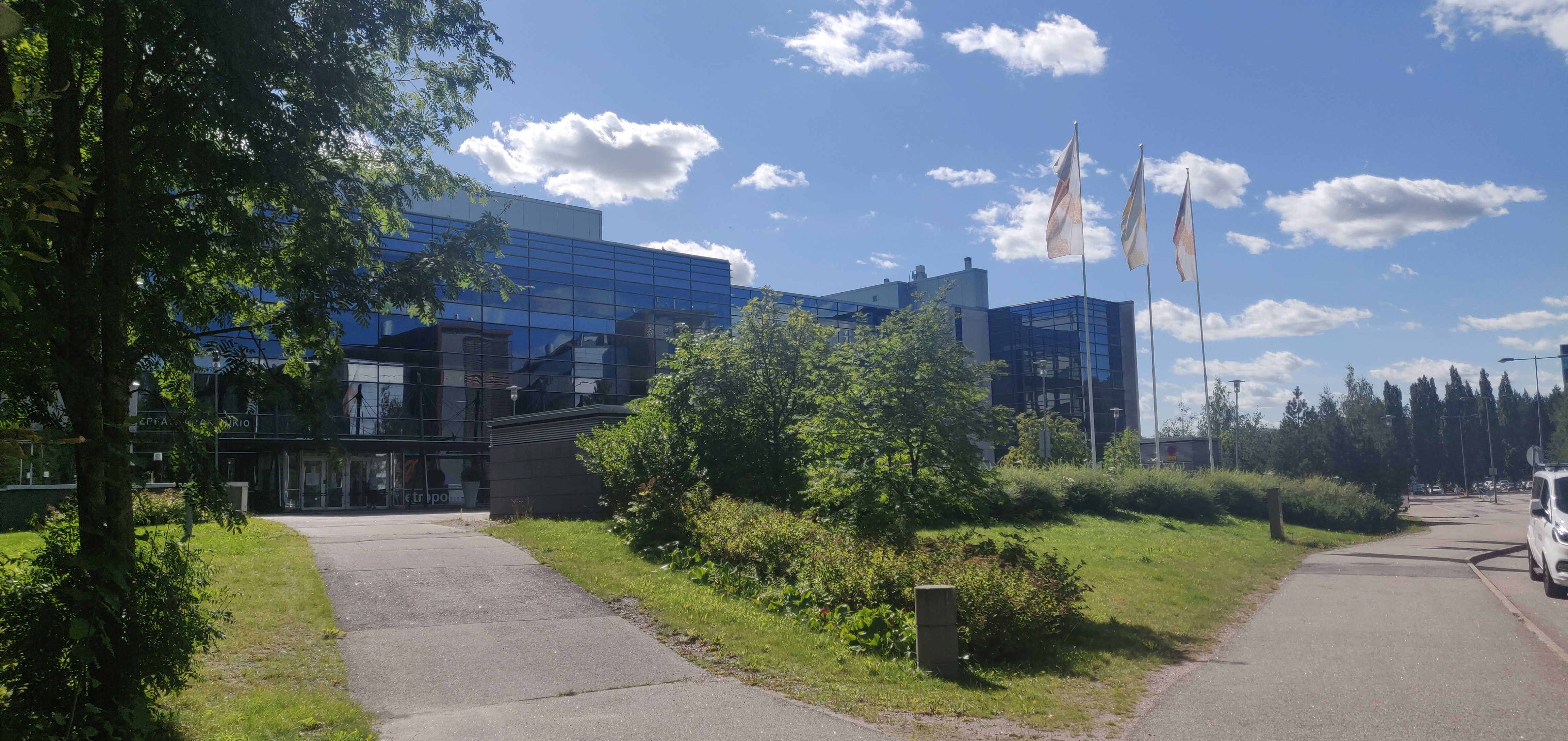 Karamalmi campus